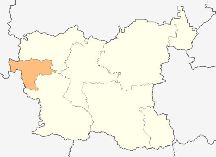 Map of Yablanitsa municipality, Lovech Province